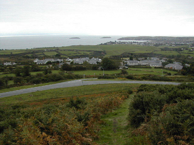 Junction at Mynytho. This road junction at SH 302 309 is on the side of Foel Gron. This view looking South shows the bay in the background at Abersoch, and the two Islands are St Tudwal's East and West.